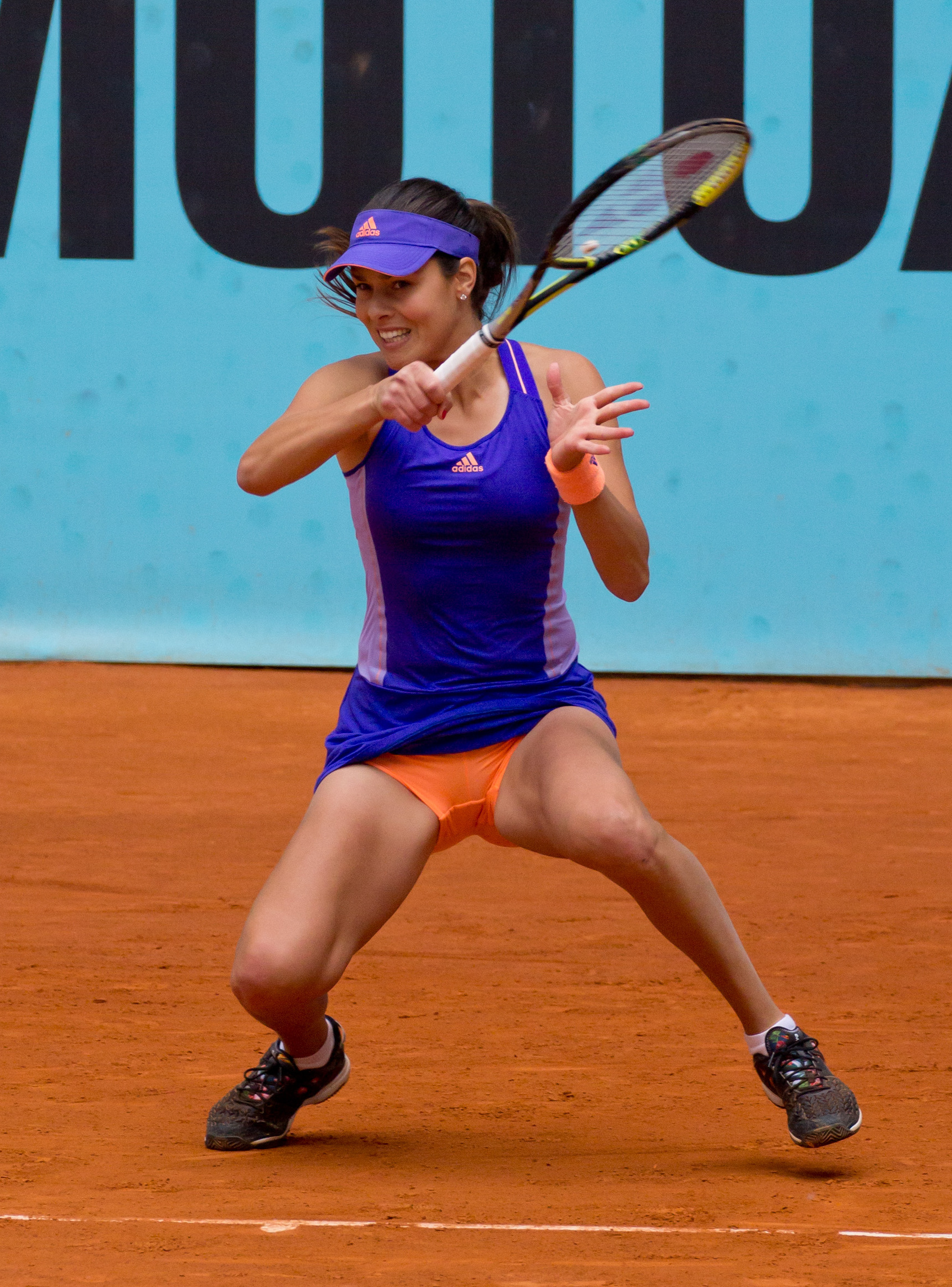 Ana Ivanović at the Madrid Open 2015, Madrid, Spain.